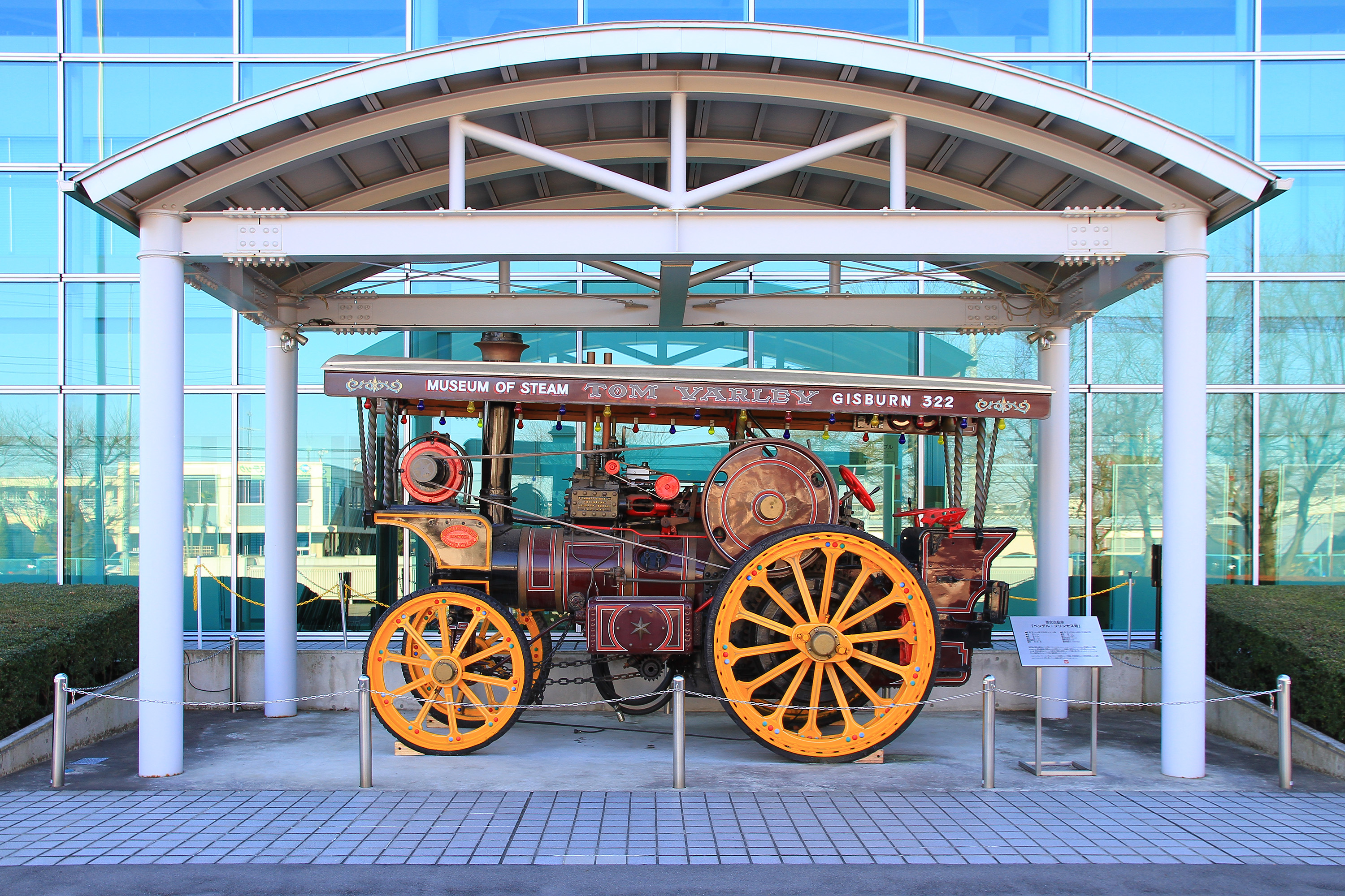 1919 Garrett Steam Tractor 33705 of 1919, exported to Japan in preservation, and displayed at Mibu Bandai Museum, Japan